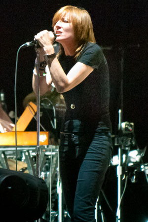 This is a low res version of a 7mp image from a Nikon d2x - Please leave the EXIF/IPTC information intact and include a credit to Micah Goldstein in all usage. For use outside wikimedia sites, please visit